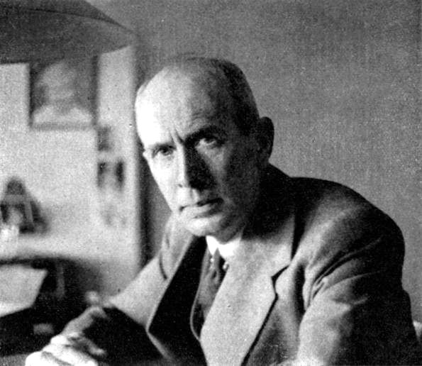 Anton Kortlandt